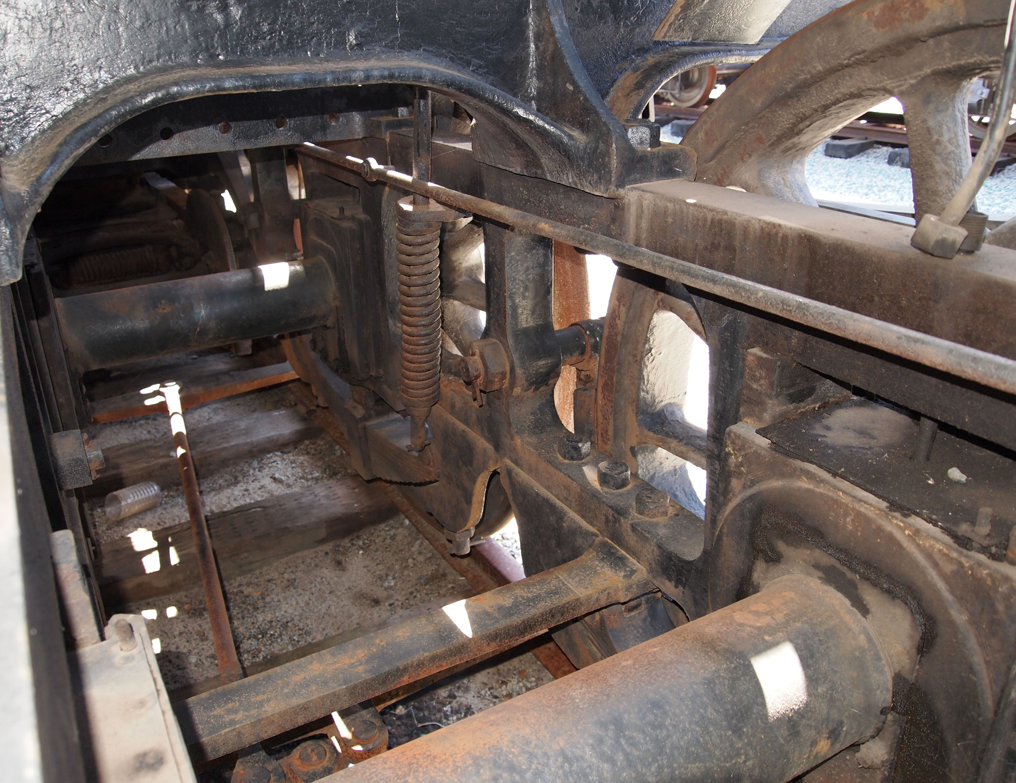 Bar frames of U class locomotive 655 of Western Australia Government Railways